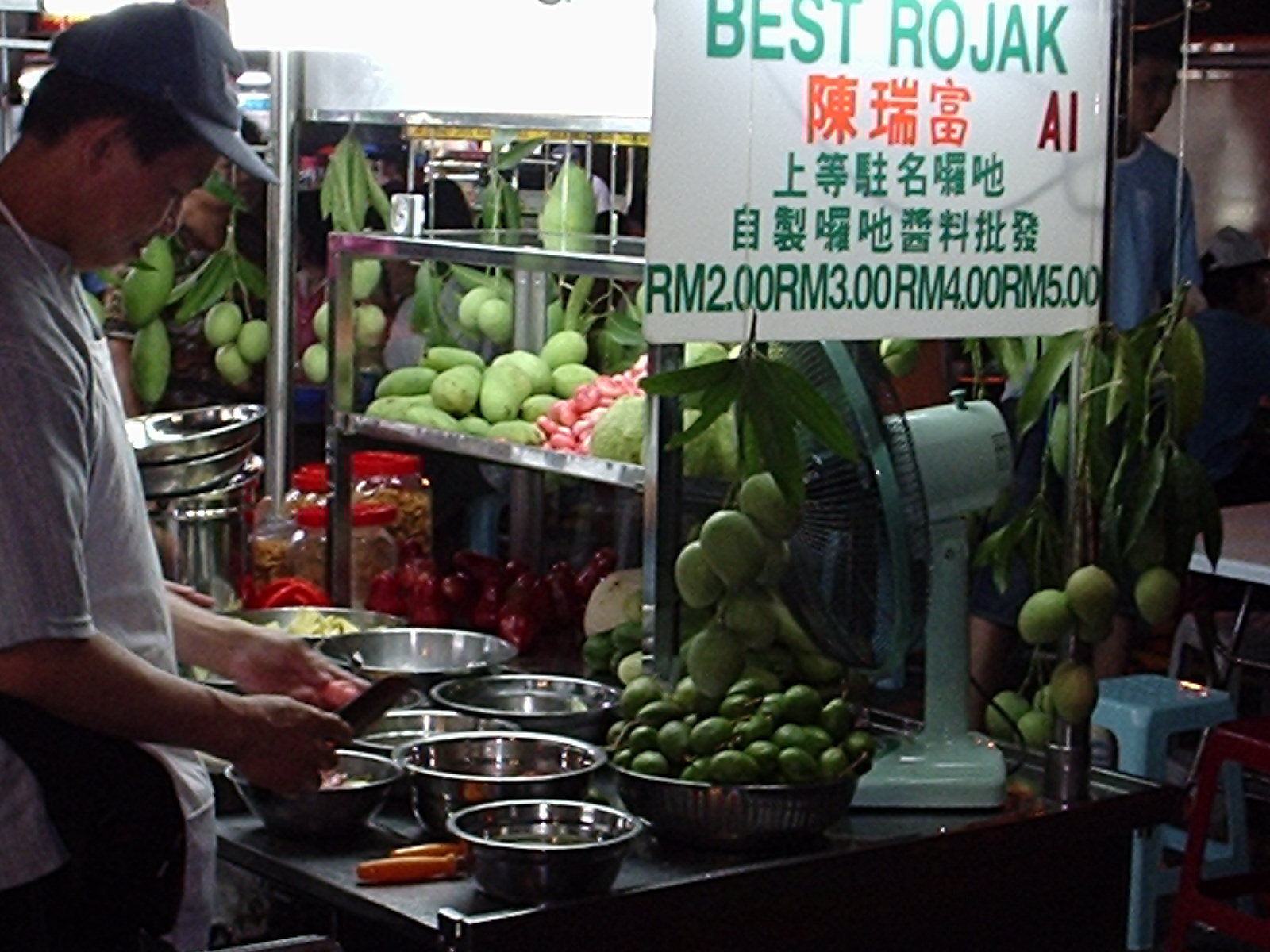 own work